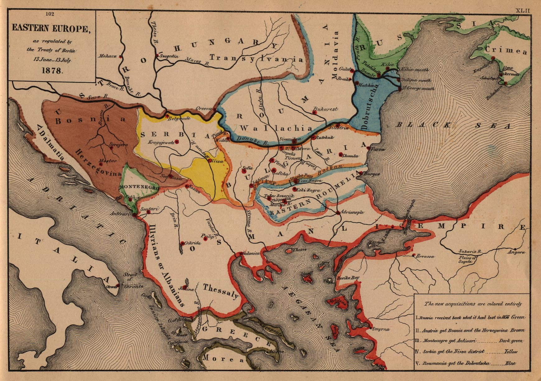 Balkan Map